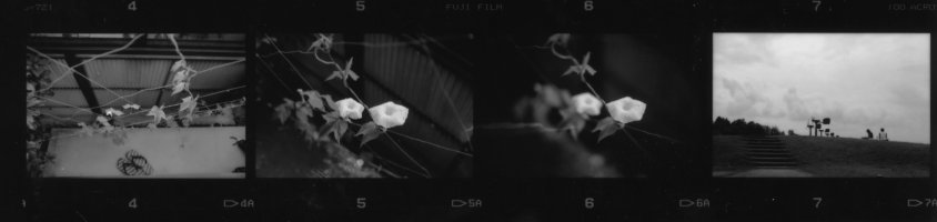 Example of making contact sheet / print in the dark room.